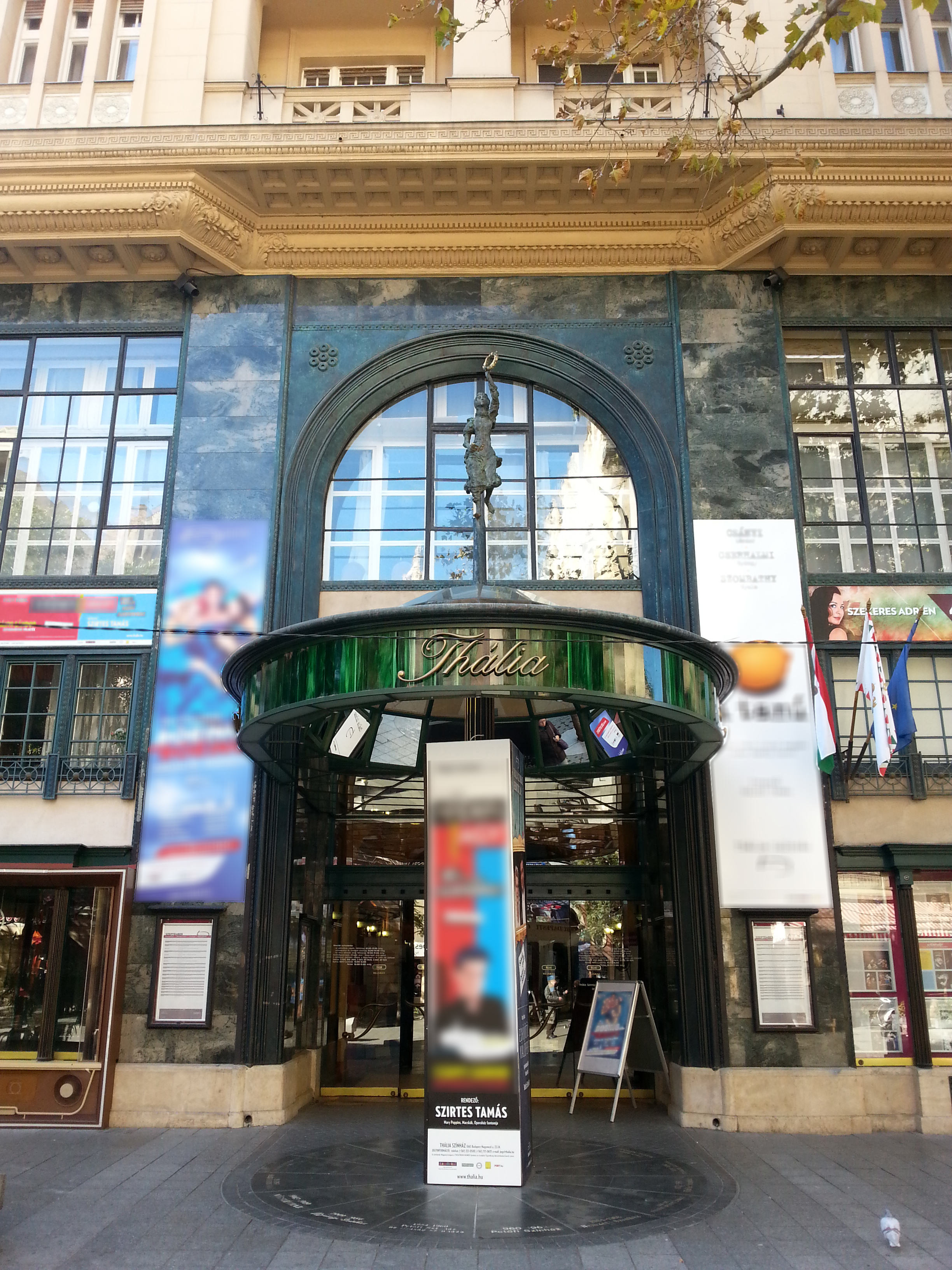 Thalia Theater Budapest